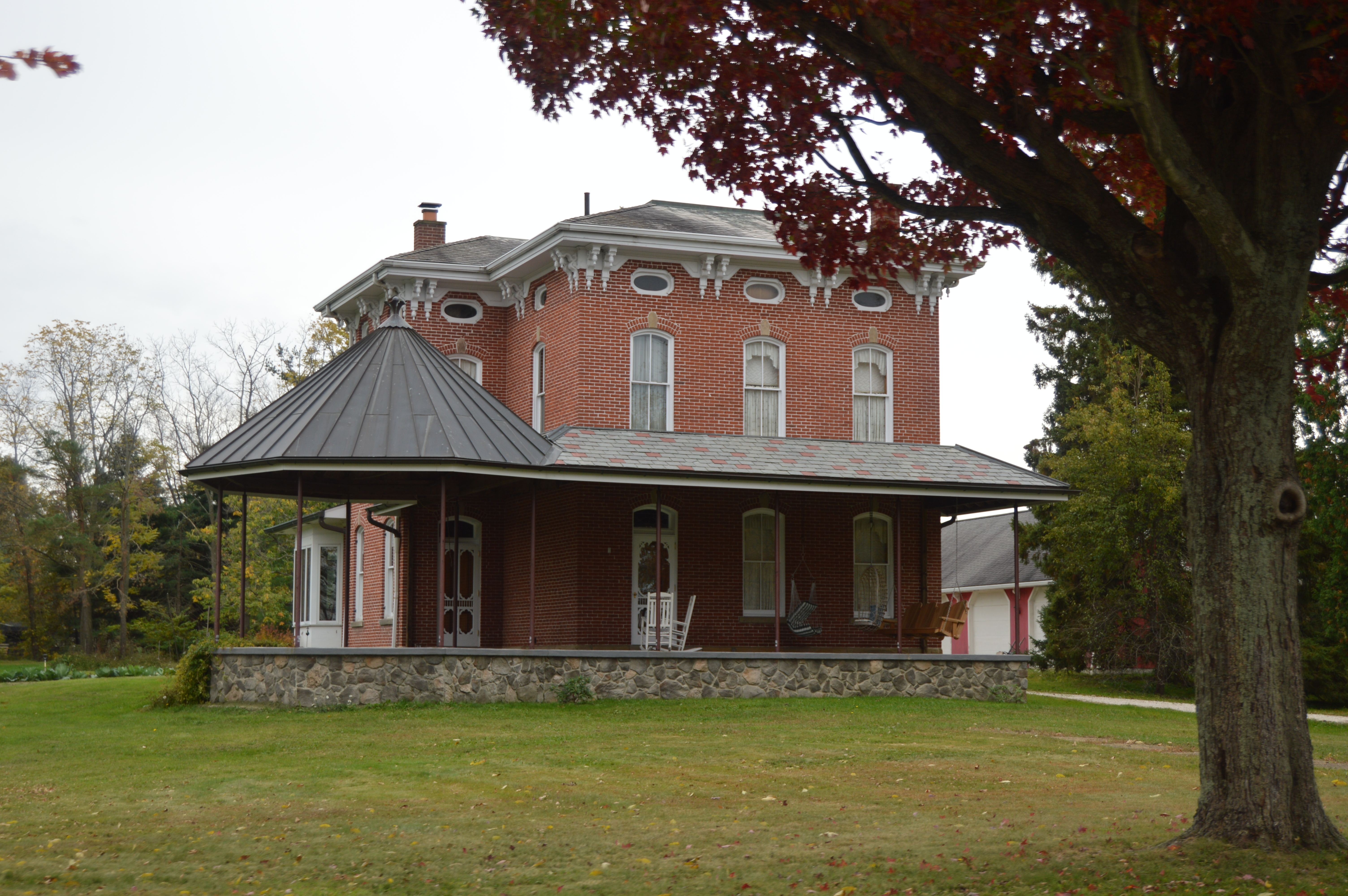 Front and eastern side of the Maudru House, located at 11786 Easton Street in Maximo, Ohio, United States. Built in 1878, it is listed on the National Register of Historic Places.